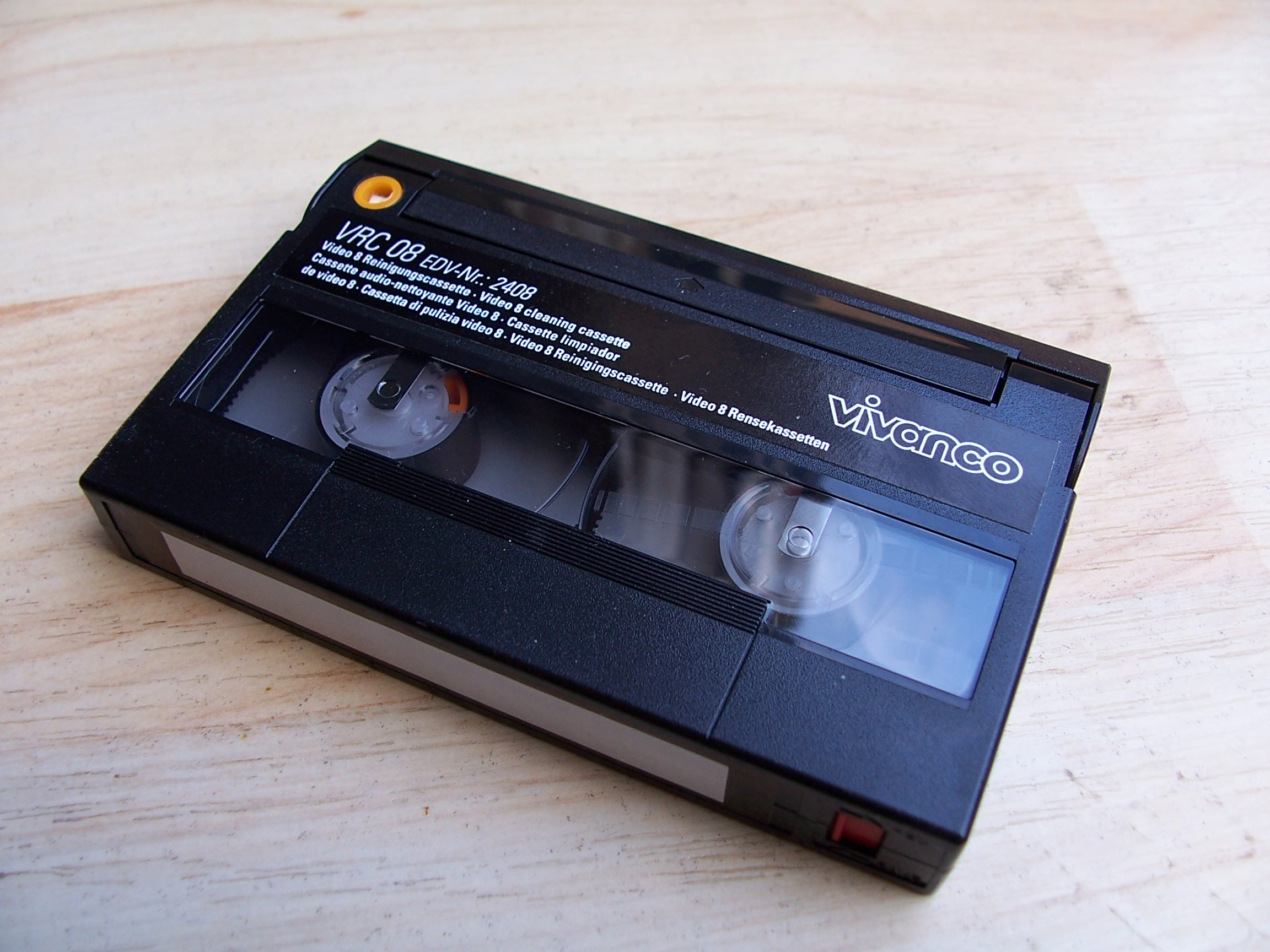 Video 8 cleaning cassette